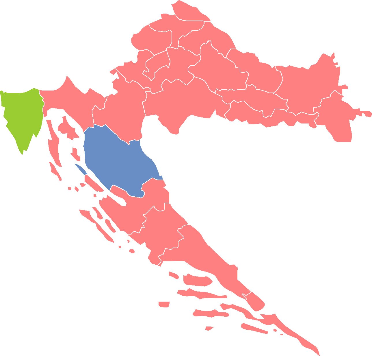 Map of Croatia with the results of the 2009-2010 presidential election, first round, by county.